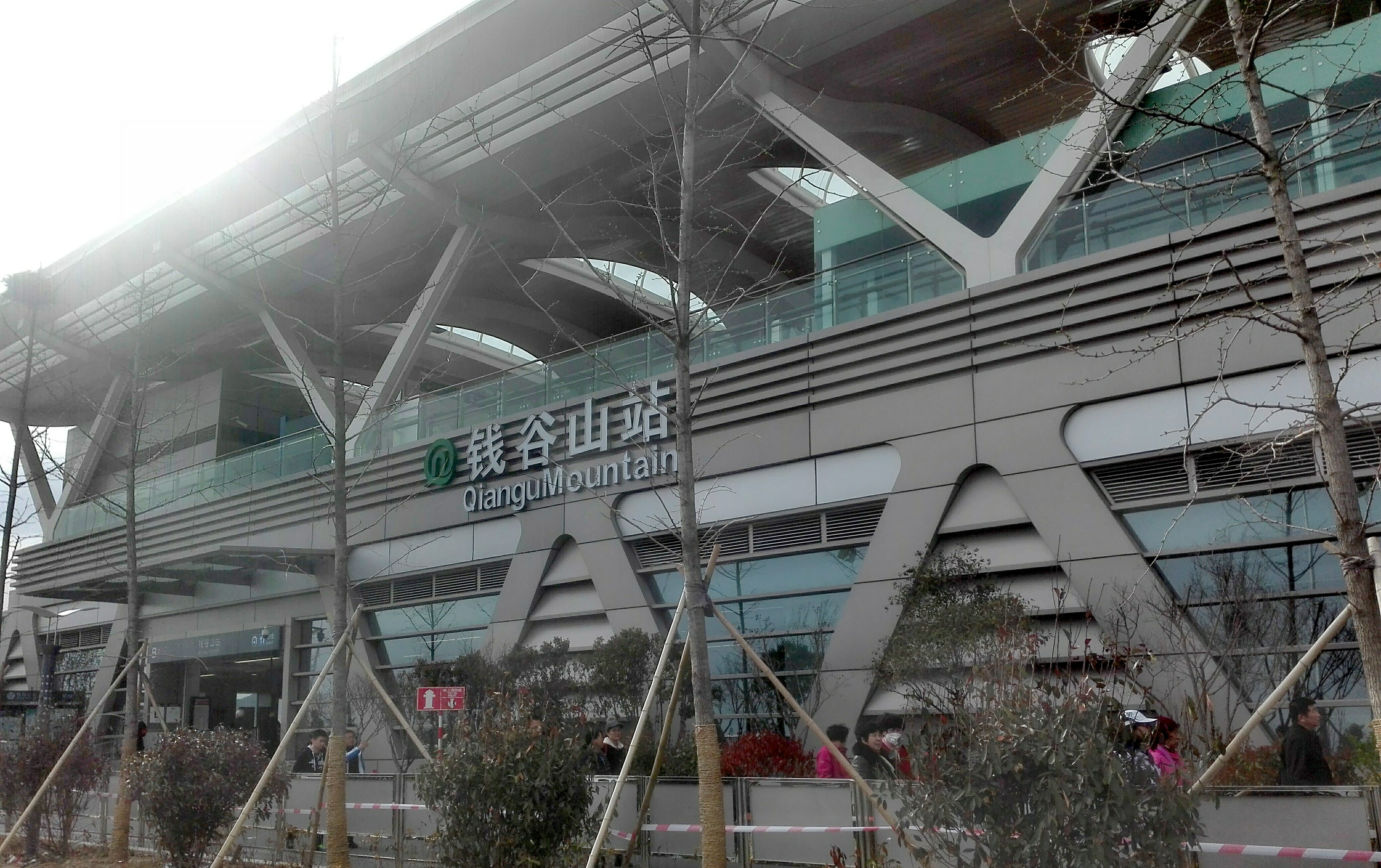 Qiangu Mountain Sta.